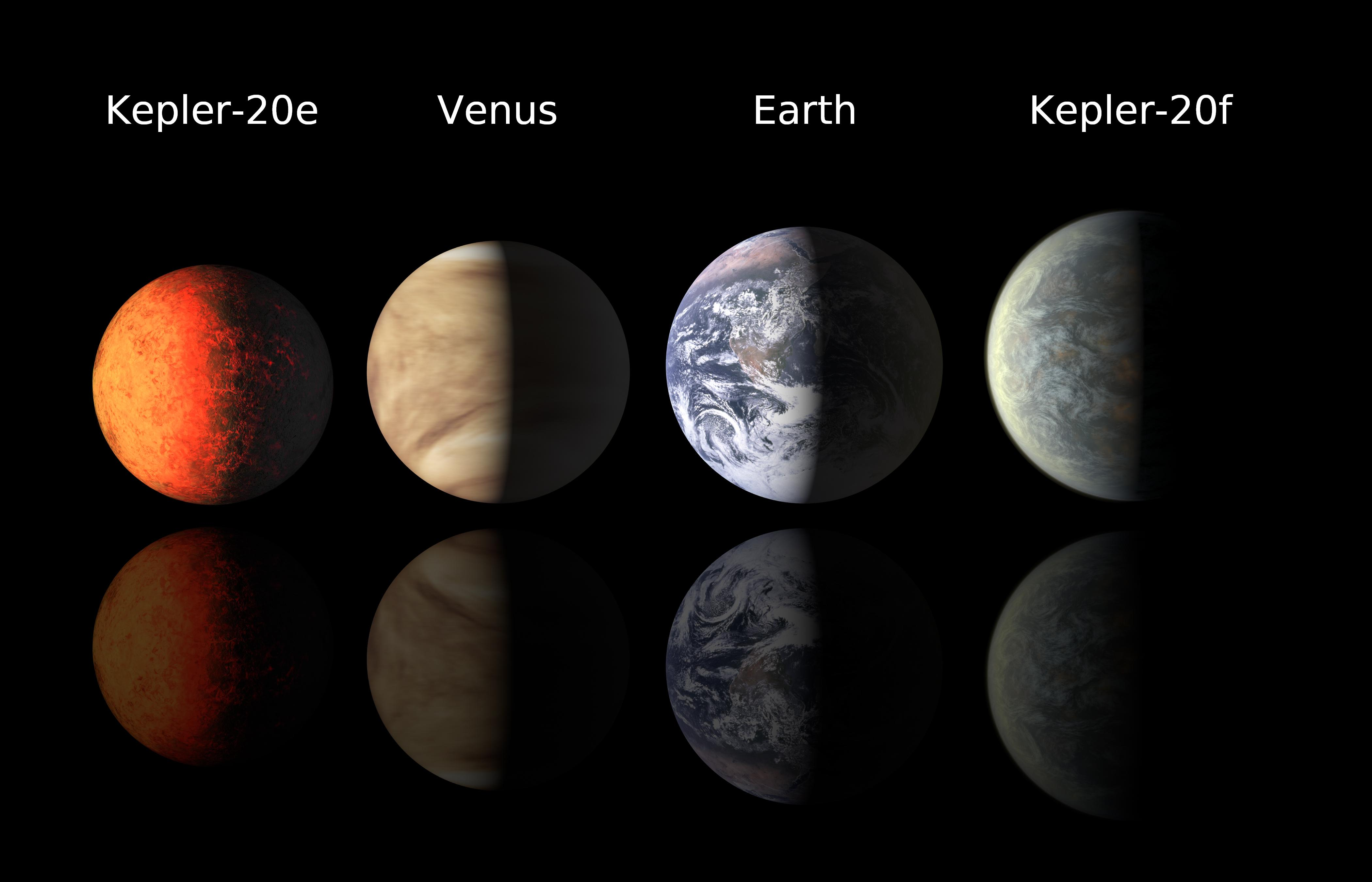 Earth-class Planets Line Up This chart compares the first Earth-size planets found around a sun-like star to planets in our own solar system, Earth and Venus. NASA's Kepler mission discovered the new found planets, called Kepler-20e and Kepler-20f. Kepler-20e is slightly smaller than Venus with a radius .87 times that of Earth. Kepler-20f is a bit larger than Earth at 1.03 times the radius of Earth. Venus is very similar in size to Earth, with a radius of .95 times that our planet. Prior to this discovery, the smallest known planet orbiting a sun-like star was Kepler-10b with a radius of 1.42 that of Earth, which translates to 2.9 times the volume. Both Kepler-20e and Kepler-20f circle in close to their star, called Kepler-20, with orbital periods of 6.1 and 19.6 days, respectively. Astronomers say the two little planets are rocky like Earth but with scorching temperatures. There are three other larger, likely gaseous planets also know to circle the same star, known as Kepler-20b, Kepler-20c and Kepler-20d. For more information about the Kepler mission and to view the digital press kit, visit: Image credit: NASA/Ames/JPL-Caltech